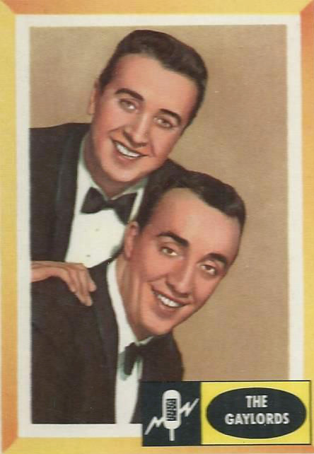 Trading card photo of The Gaylords. In 1960, Fleer gum cards issued a series of recording stars. They were part of their recording stars cards.